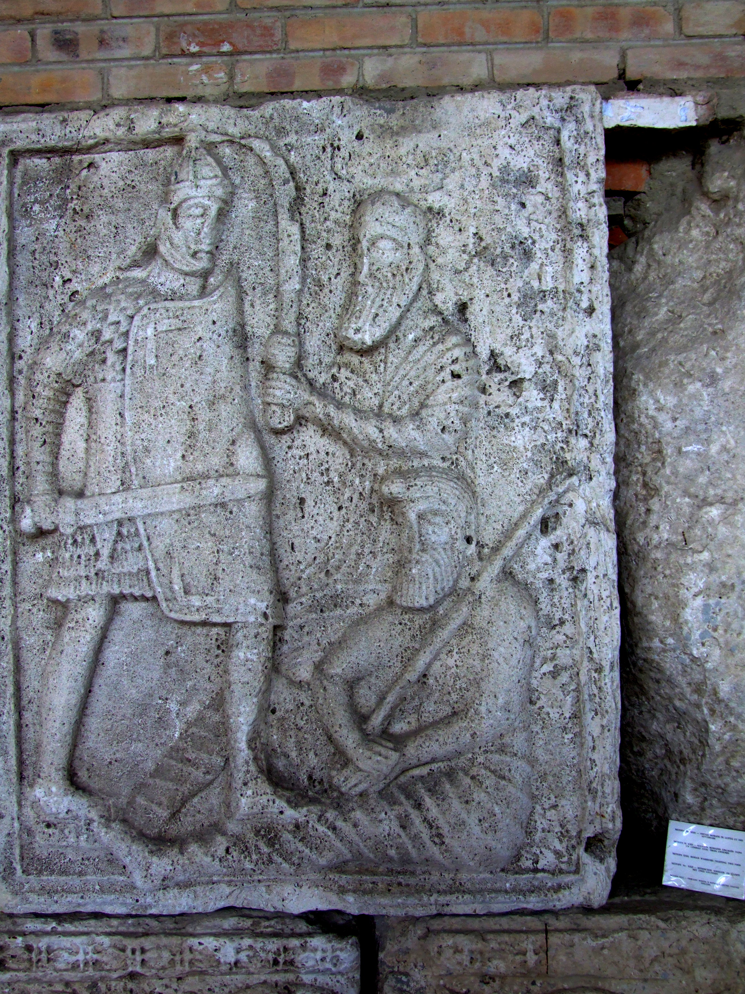 Tropaeum Traiani Metope XVII;A battle scene from Tropaeum Traiani: a Roman legionnaire battles a Dacian warrior wielding a falx, while a Buri warrior sporting a Suebian knot lies injured on the ground. See also: D. Kleiner, Roman Sculpture (New Haven, 1992) figs. 196–198, pp. 230–232